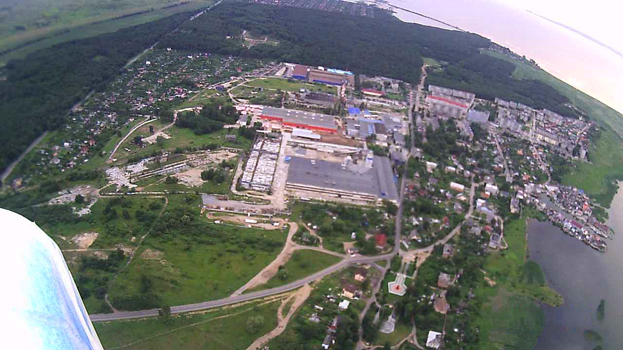 Pribrezhniy (Kaliningrad). Photo made by RC-plane.